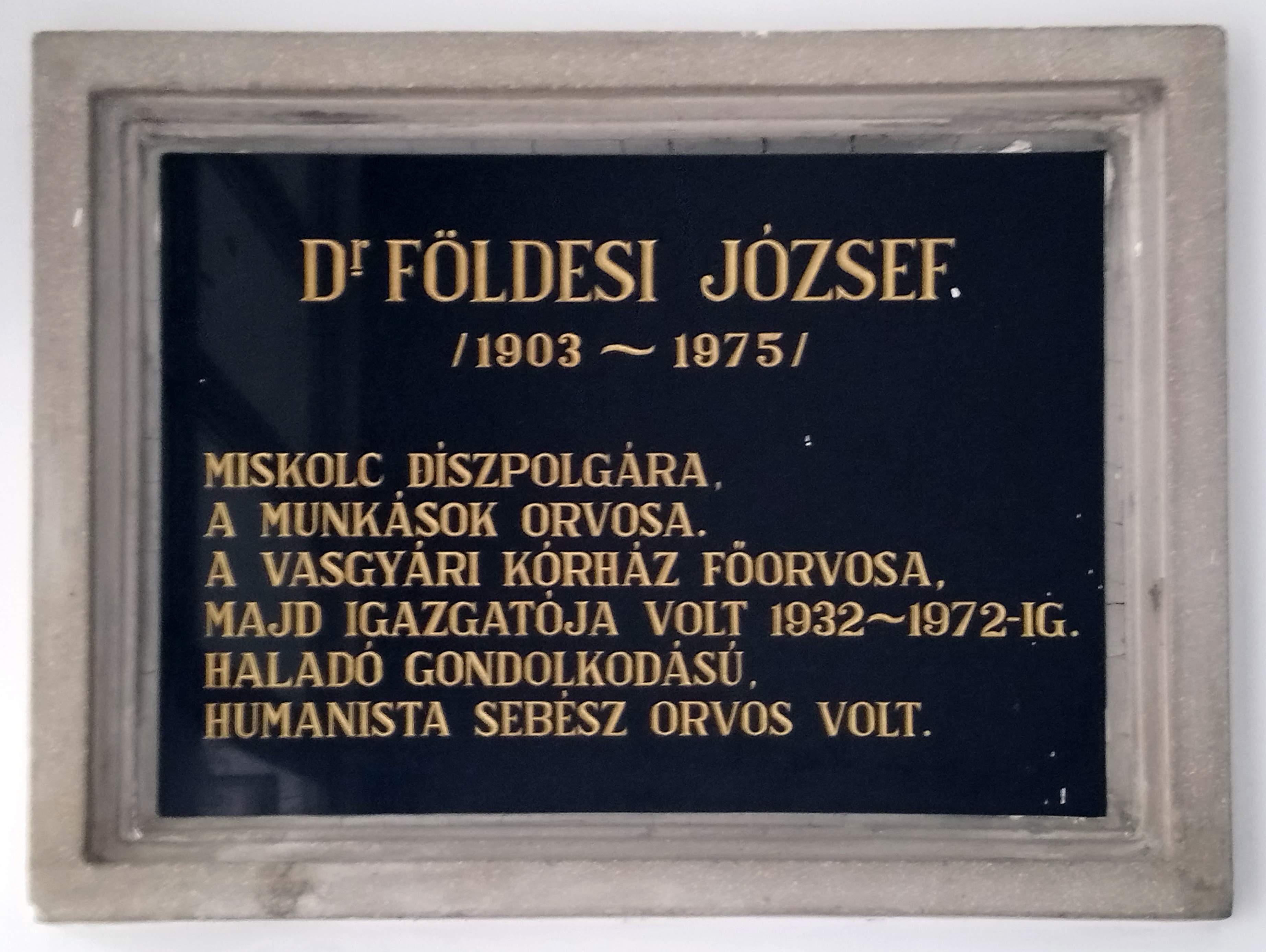 Memorial tablet of József Földesi doctor, Vasgyár Hospital, Miskolc, Hungary